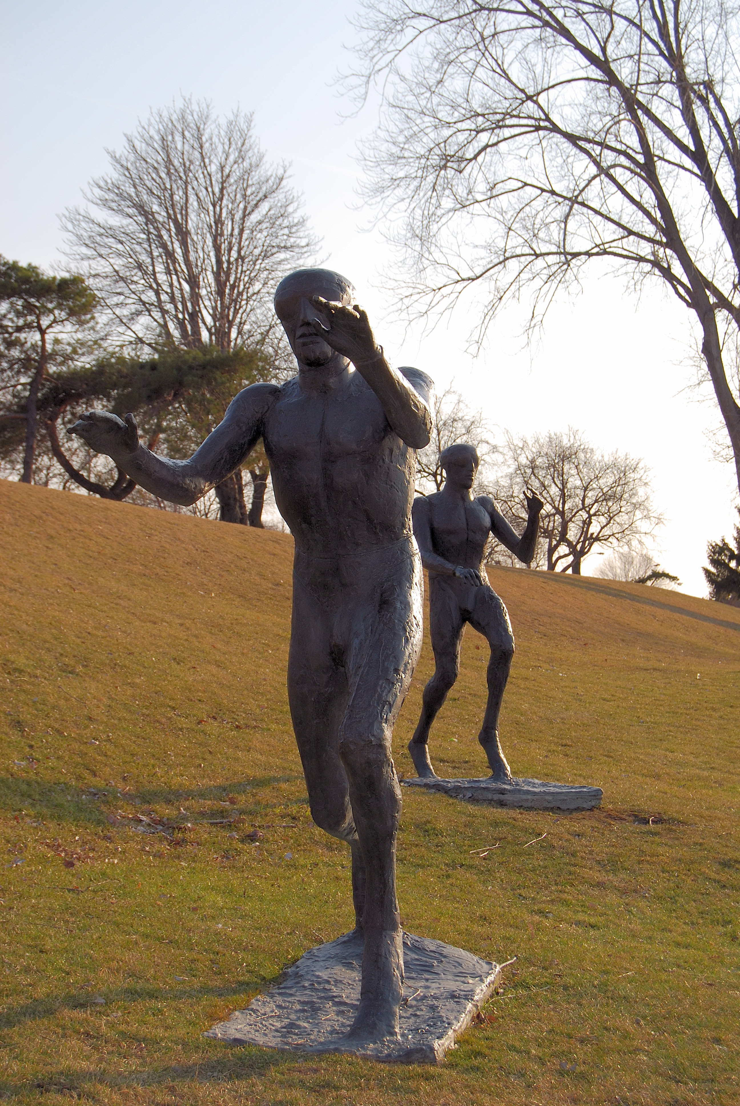 Sculpture Flying Men by Elisabeth Frink in Odette Sculpture Park - Windsor, Ontario/Canada